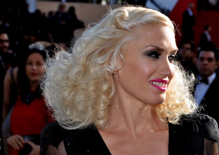 Gwen Stefani at the Cannes film festival